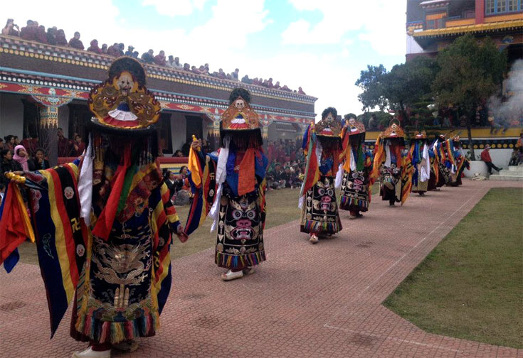 Bon Monastery Dholanji,Solan